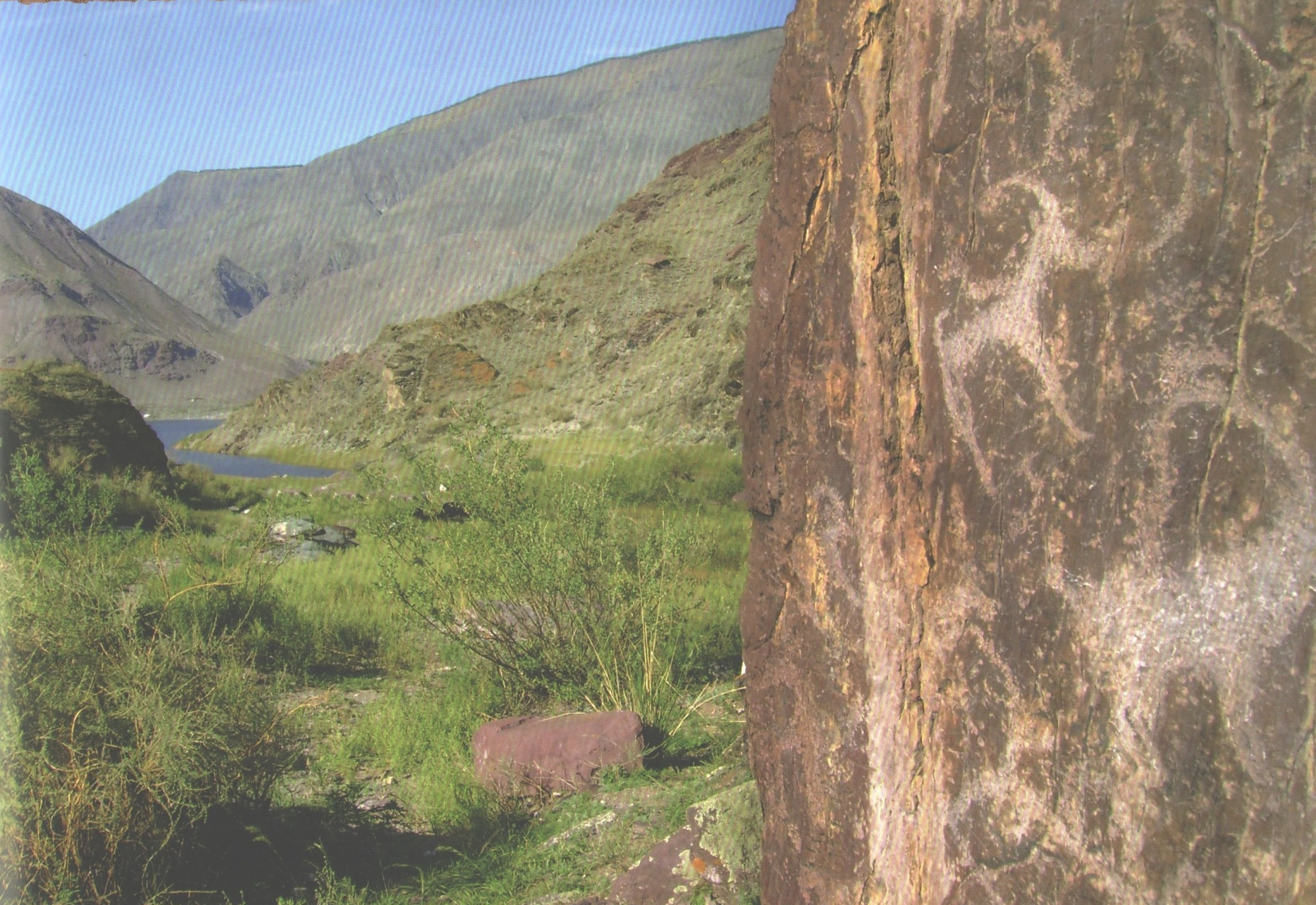 Mugur-Sargol